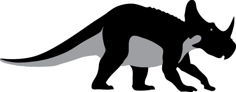 Monoclonius (meaning "single stem"; referring to the teeth, which have a single root)[1] Cope 1876 was a ceratopsian dinosaur from the Judith River Formation of Late Cretaceous Montana and Canada. It is often confused with Centrosaurus, a similar species of ceratopsian (some think the two may even be the same, of a different age or sex).